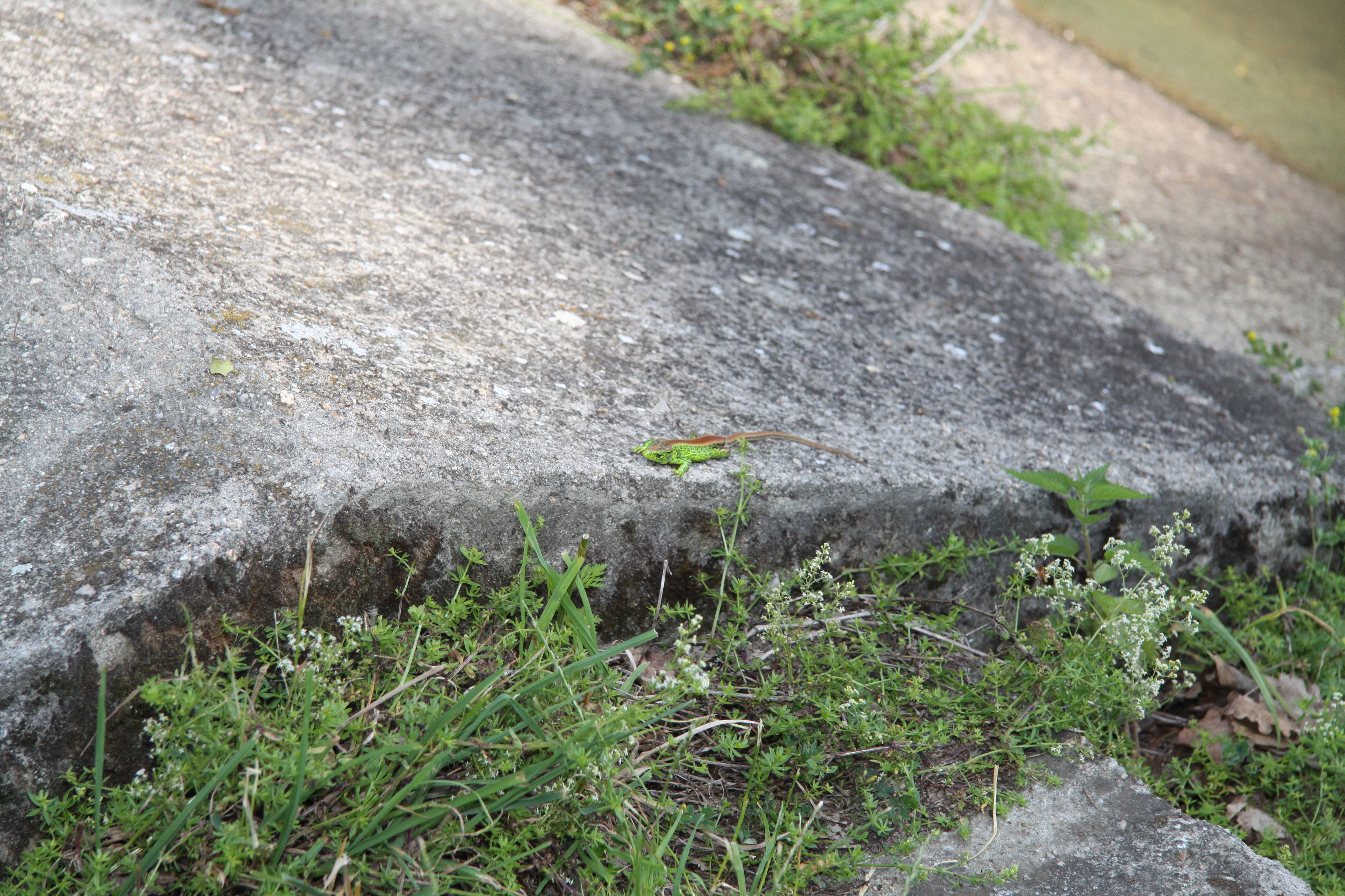 Male of Lacerta agilis near Řežabinec pond in national nature reserve Řežabinec a Řežabinecké tůně in Písek District, Czech Republic